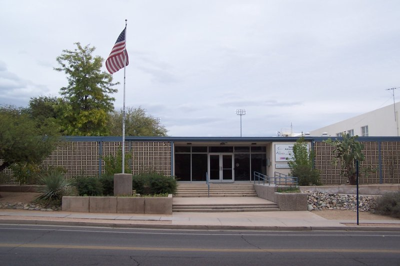 NOAO, Tucson, AZ